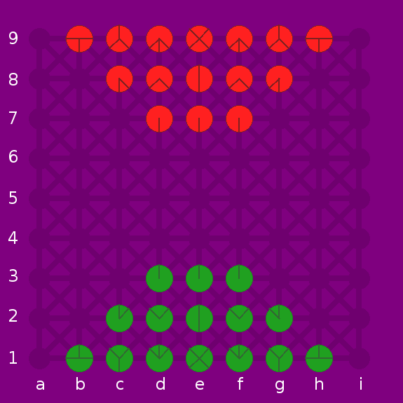 Ploy configuration - two player game